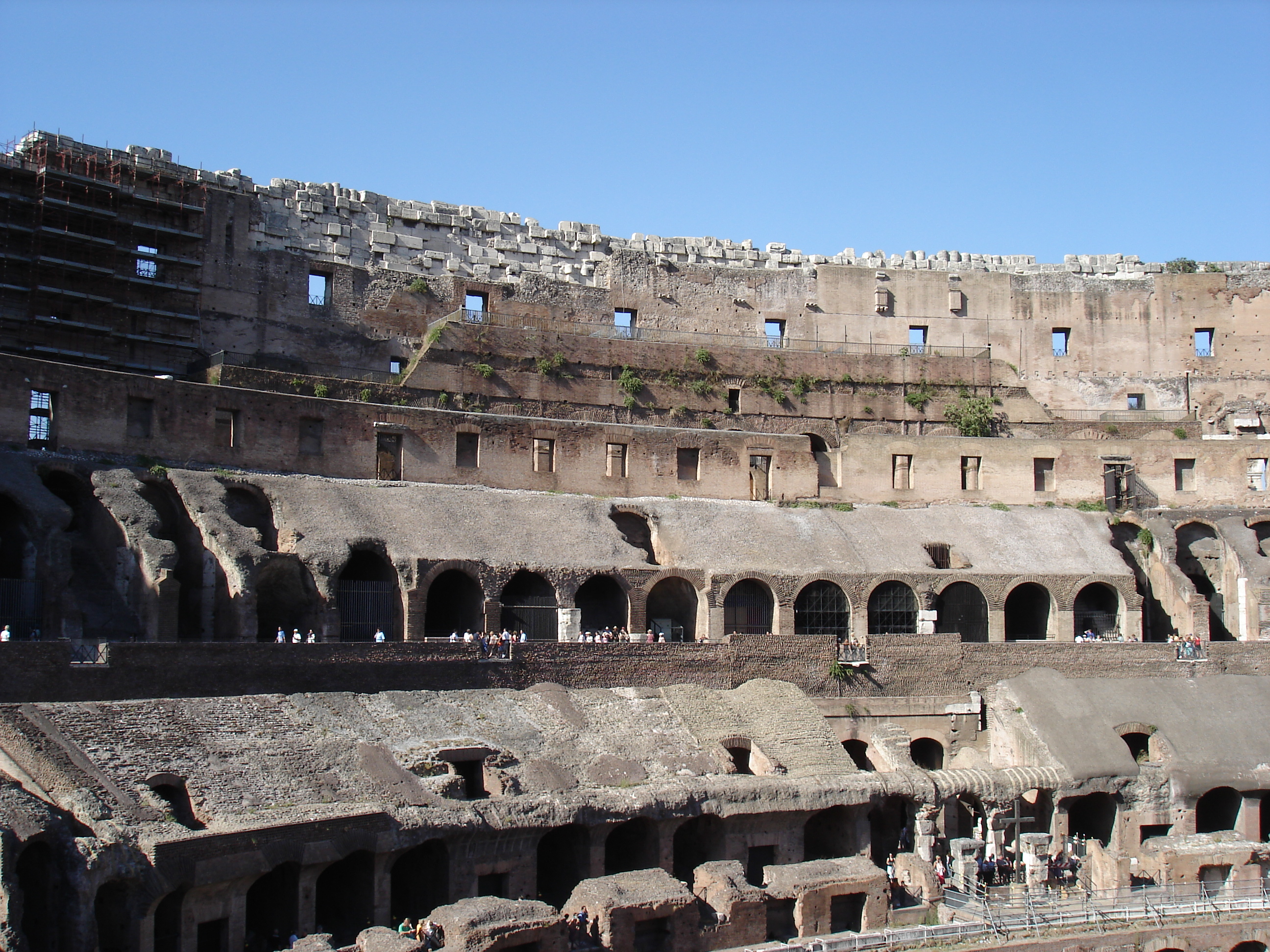 Rome in July.